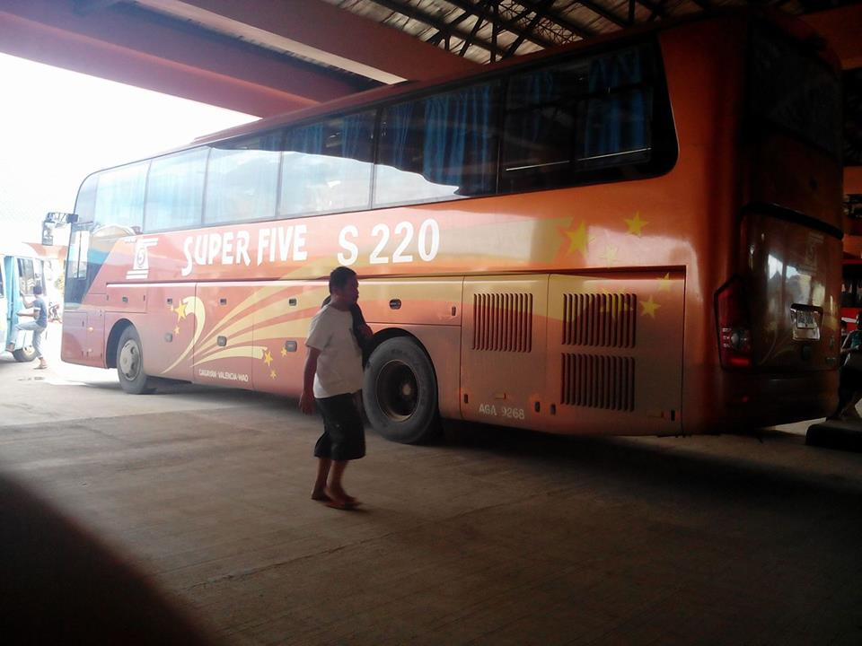 Super Five bus in Maramag, Bukidnon